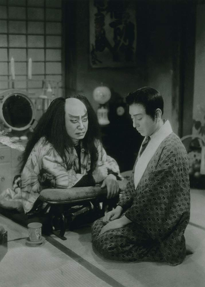 Shōtarō Hanayagi (right) in Zangiku monogatari (残菊物語), directed by Kenji Mizoguchi - 1939